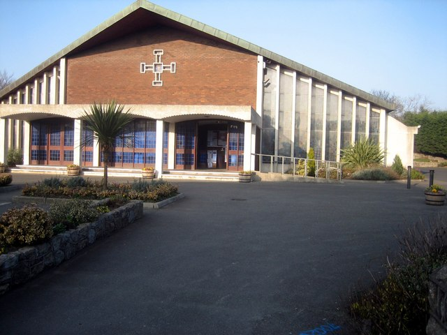 St. Anthony's, Clontarf Road At the rear of St. Anthony's Hall.